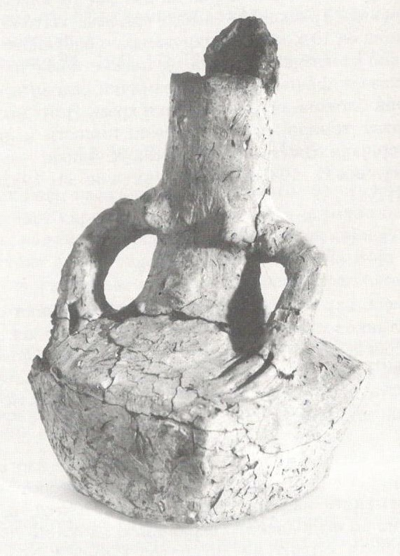 Great Mother, an sacrificial sculpture from the Middle Neolithic found in the village of Mrshevci, Macedonia